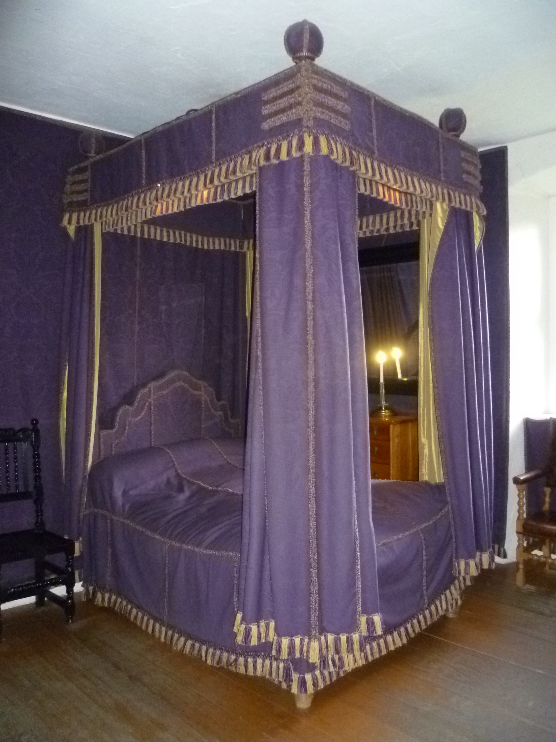 The bed in My Lady's Closet, Argyll's Lodging, Stirling